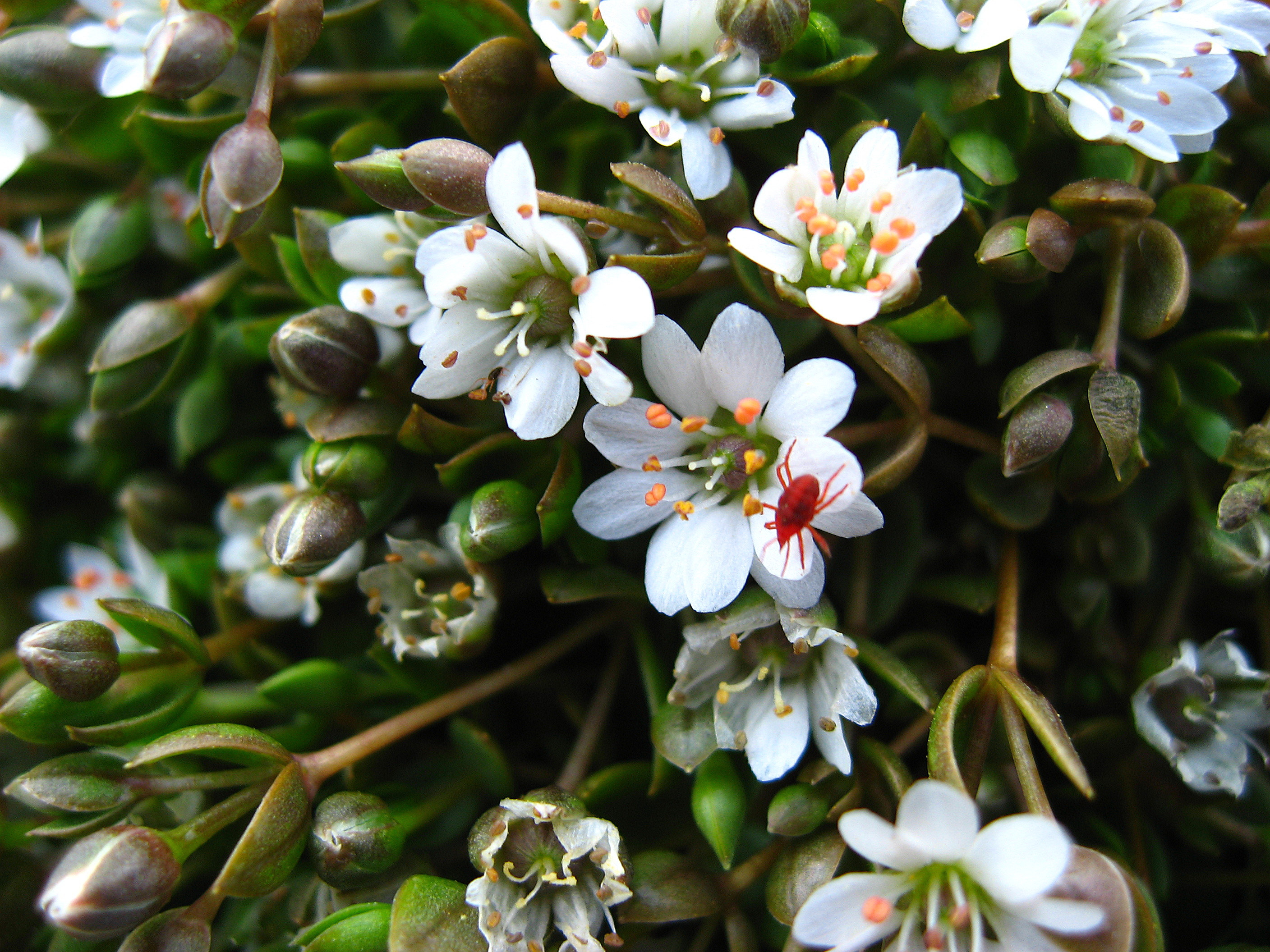 Saltmarsh Starwort (Stellaria humifusa) photographed near eastern beach in Kangersuatsiaq, Greenland. One of the flowers has a red mite on it - it is an individual of a velvet mite of the (Bdellidae family). A very small critter is seen on the flower next to it. It could be a juvenile individual of the same species.